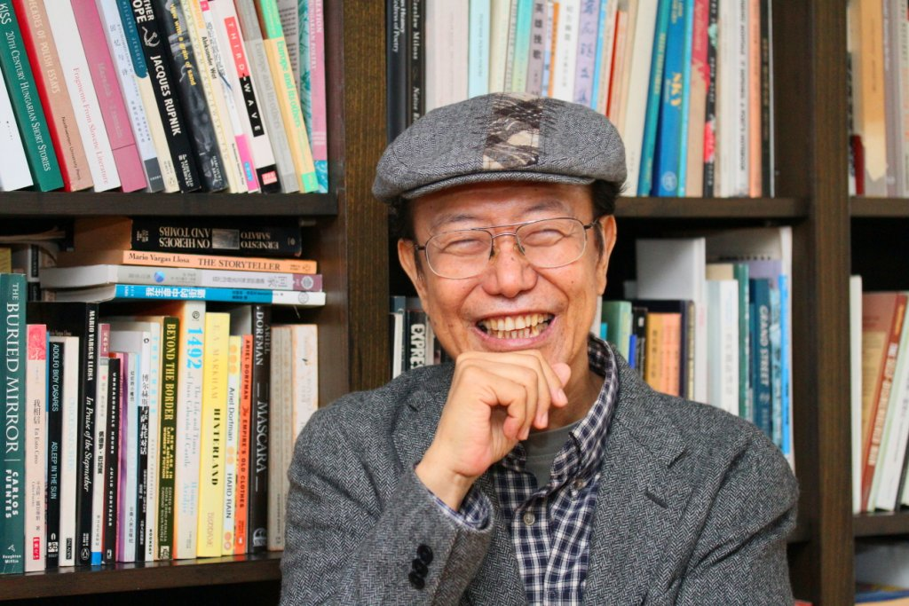 Yesi's photo